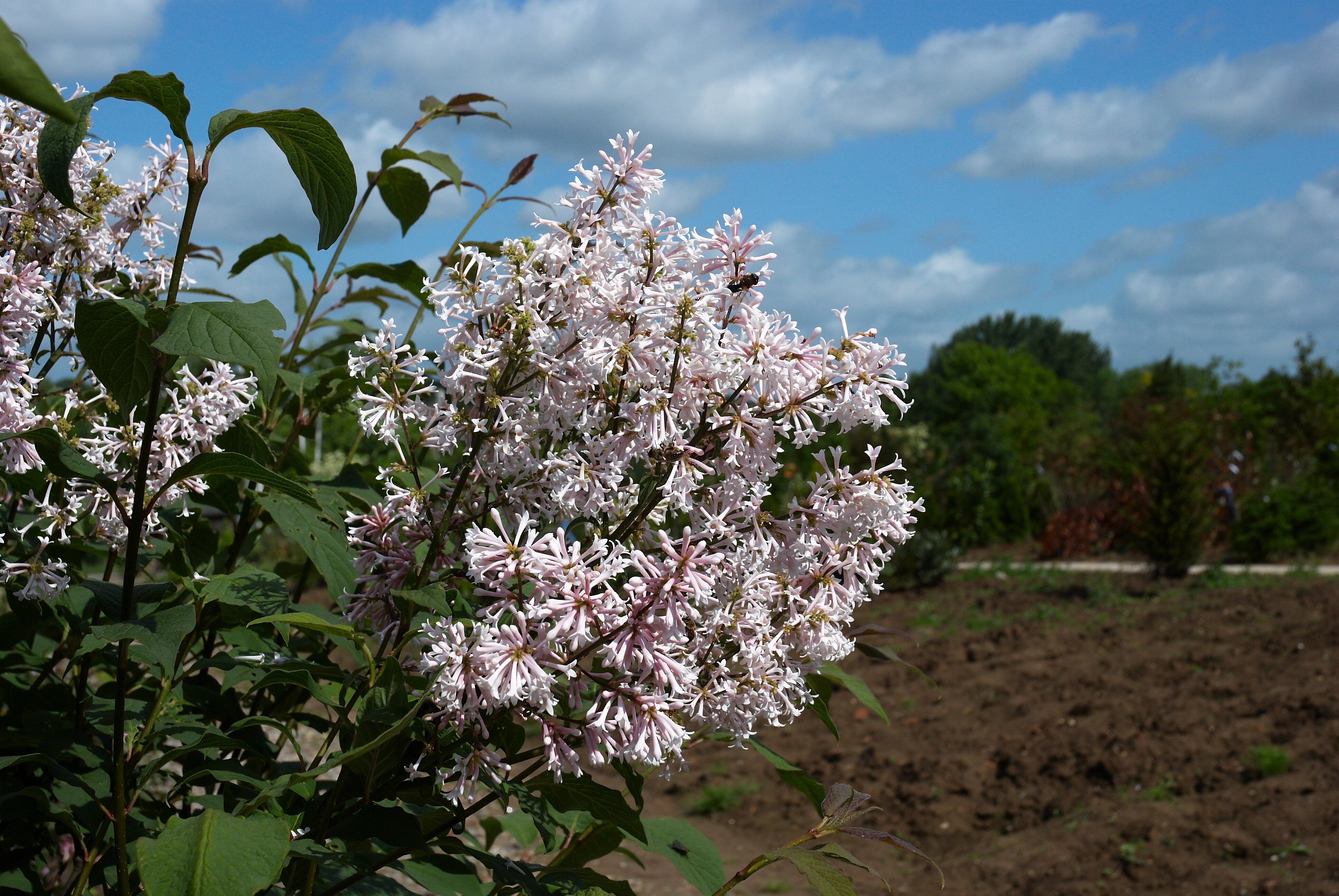 Syringa yunnanensis. Photo taken in an arboriculture in Vossem, Belgium